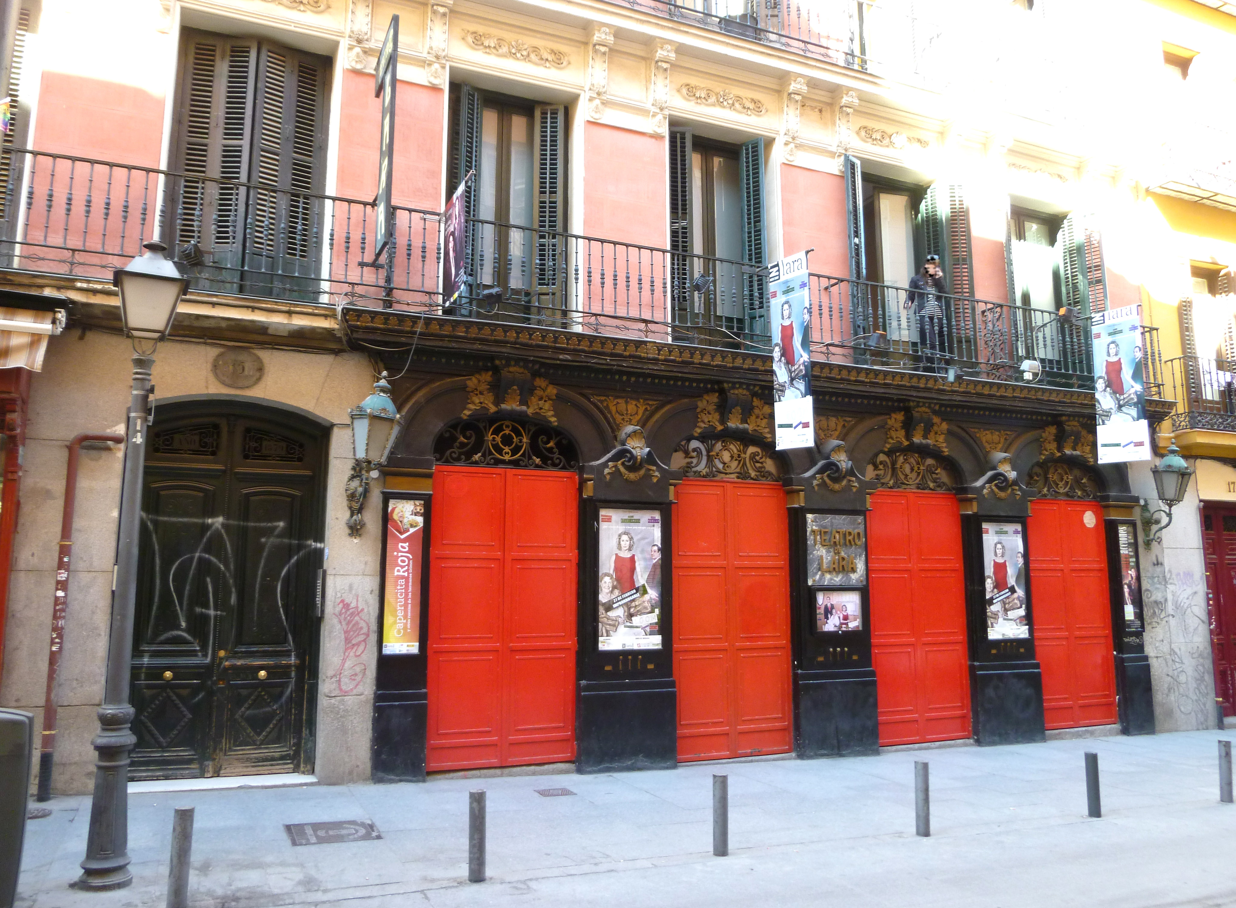 Façade of Teatro Lara (a theater) in Madrid (Spain), at 15 Corredera Baja de San Pablo (street) in Centro district. Projected in 1879 by Carlos Velasco Peinado and built in 1880.